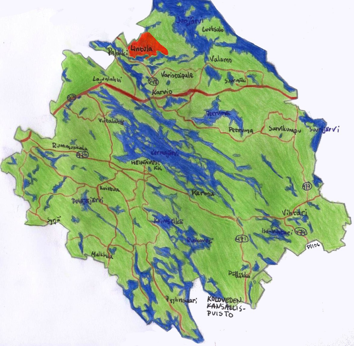 Map of Heinävesi, Finland. The red point shows the location of the Lintula Holy Trinity Convent.